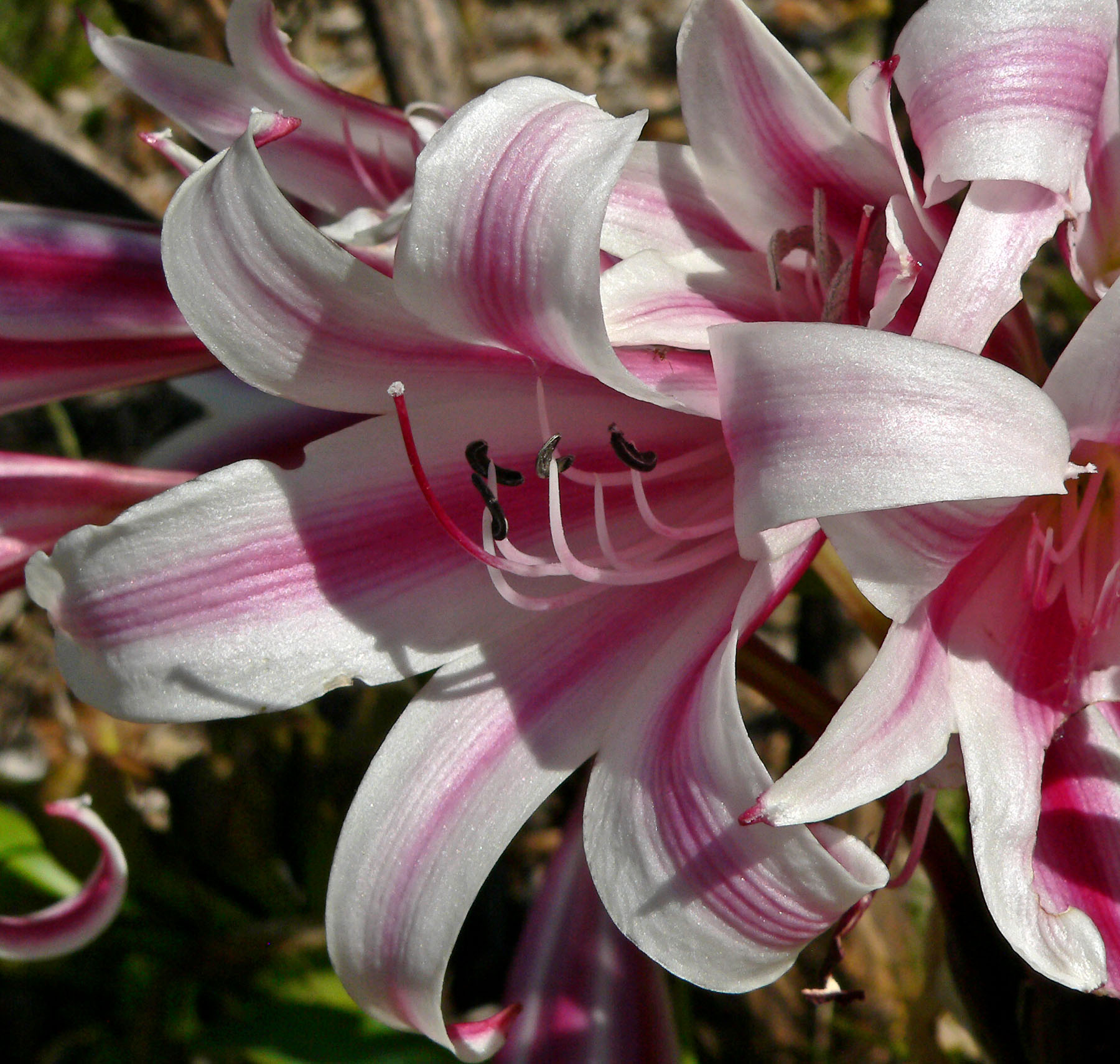 Crinum kirkii at the University of California Botanical Garden, Berkeley, California